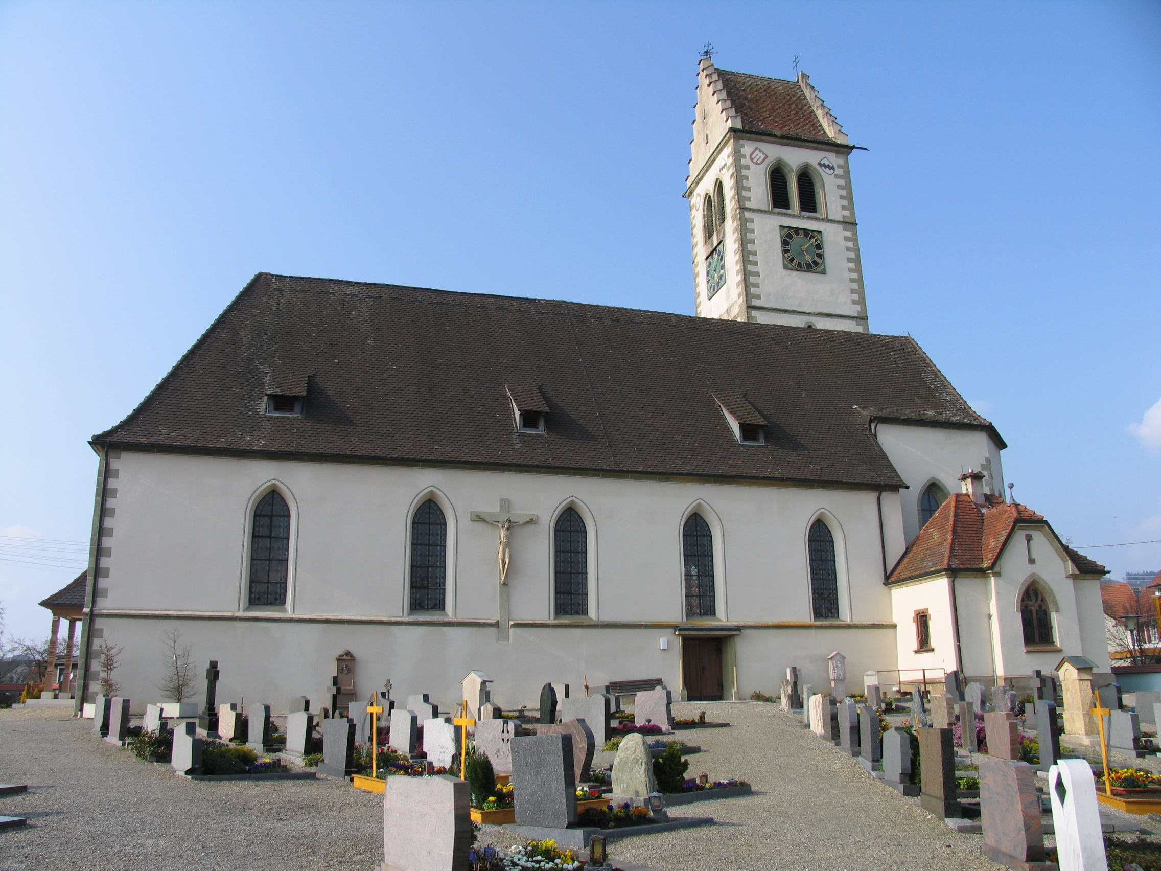 Church of Saint Martin in Frickingen.